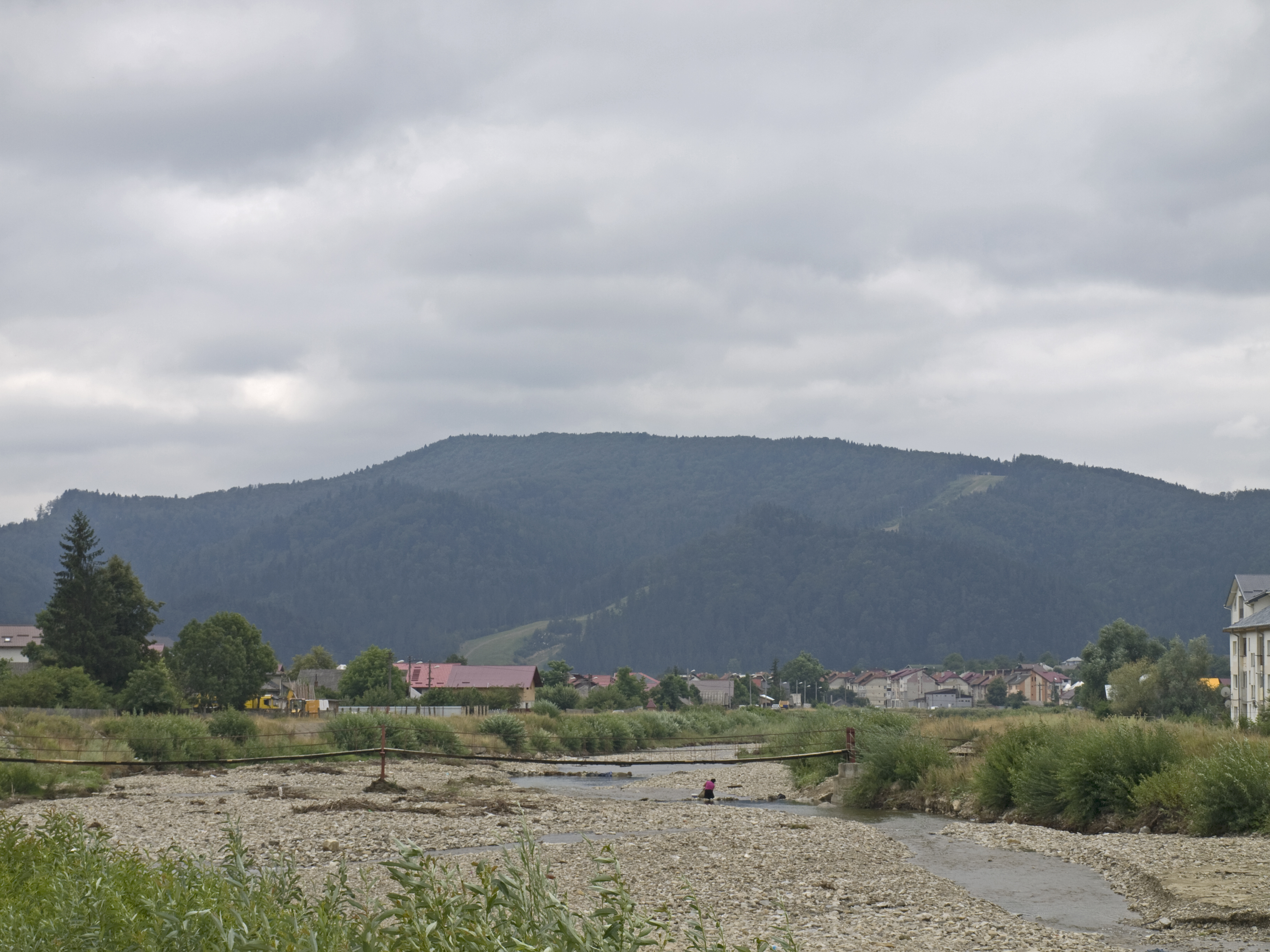 Humor River in Boureni, Gura Humorului